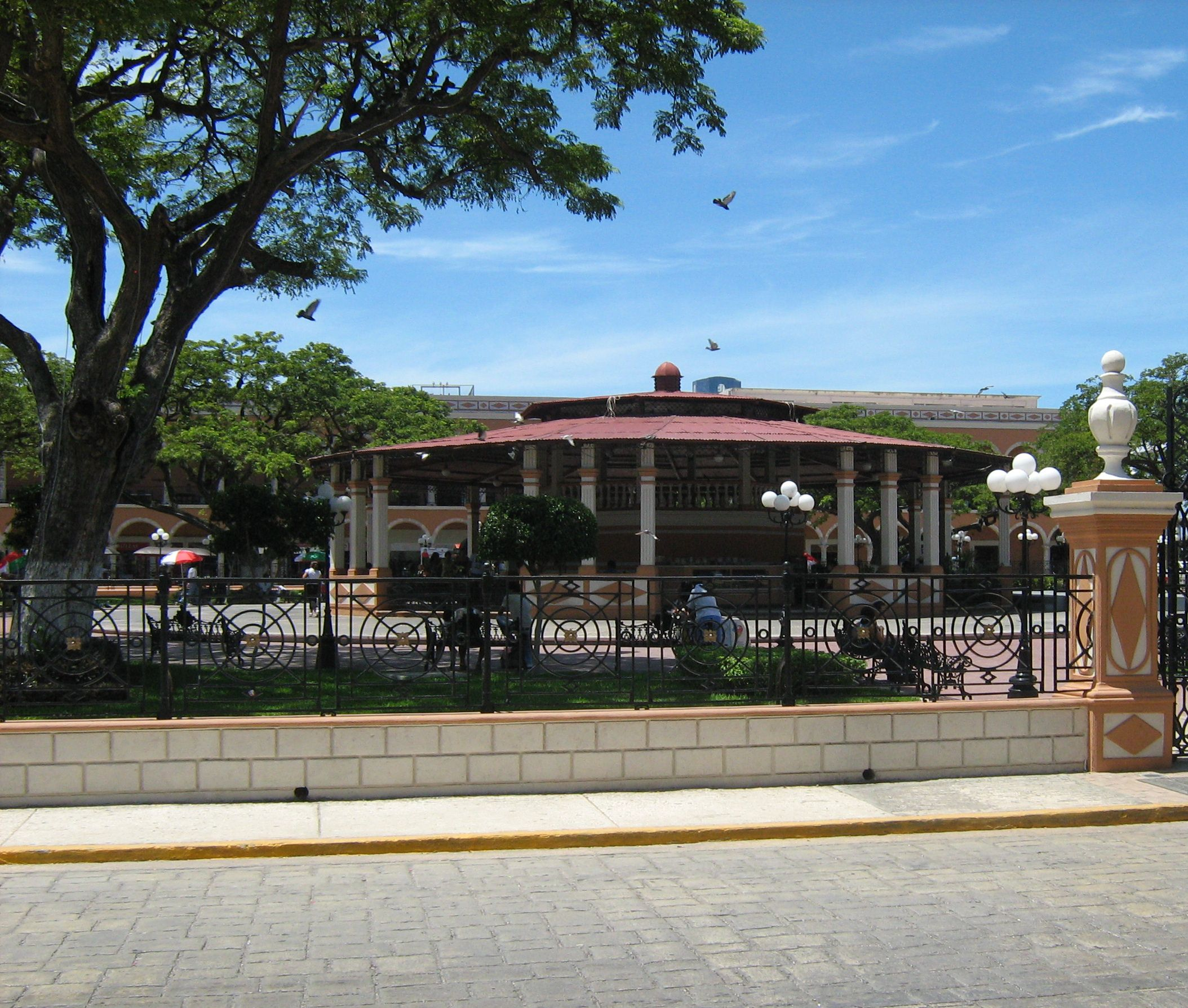 Main center, Campeche's park.